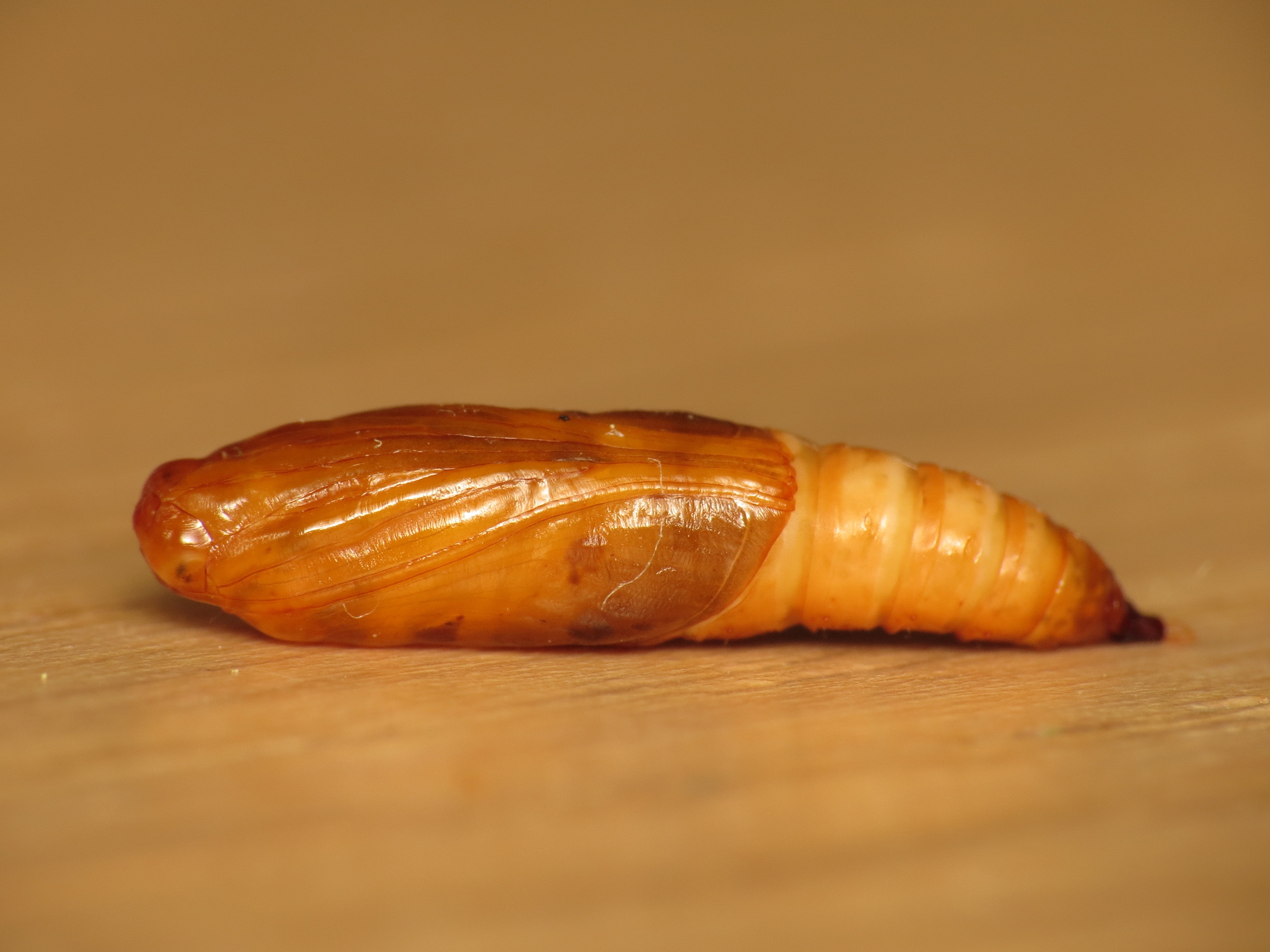 Udea prunalis ([Denis & Schiffermüller], 1775), pupa, 24 May 2014, from larva found on Ulmus glabra Huds., Søborg, Denmark, 17 May 2014